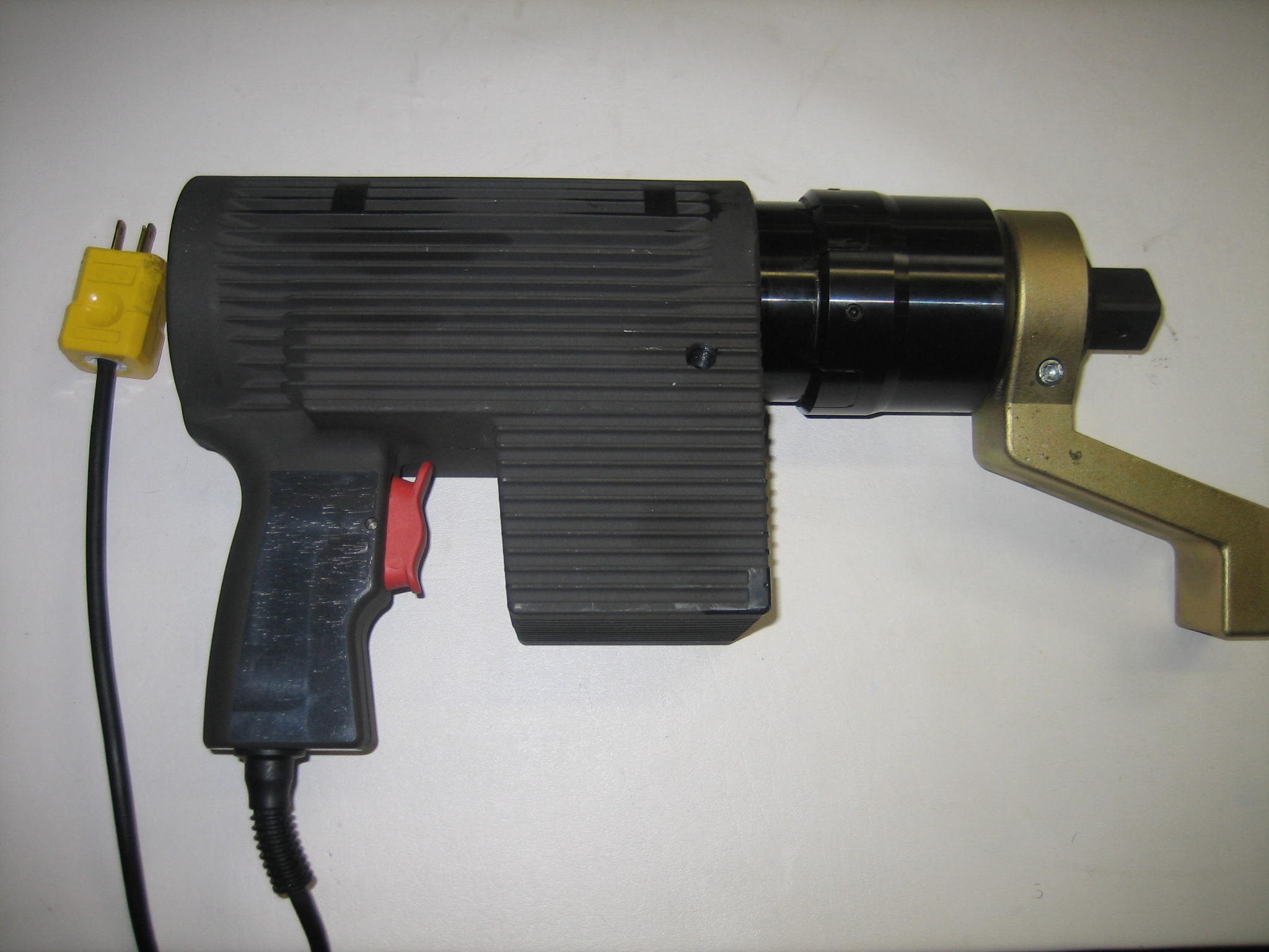 Electric Torque Wrench